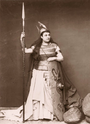 Soprano Amalie Materna (1844-1918) as Brünnhilde in Wagner's Der Ring des Nibelungen at Bayreuth in 1876.